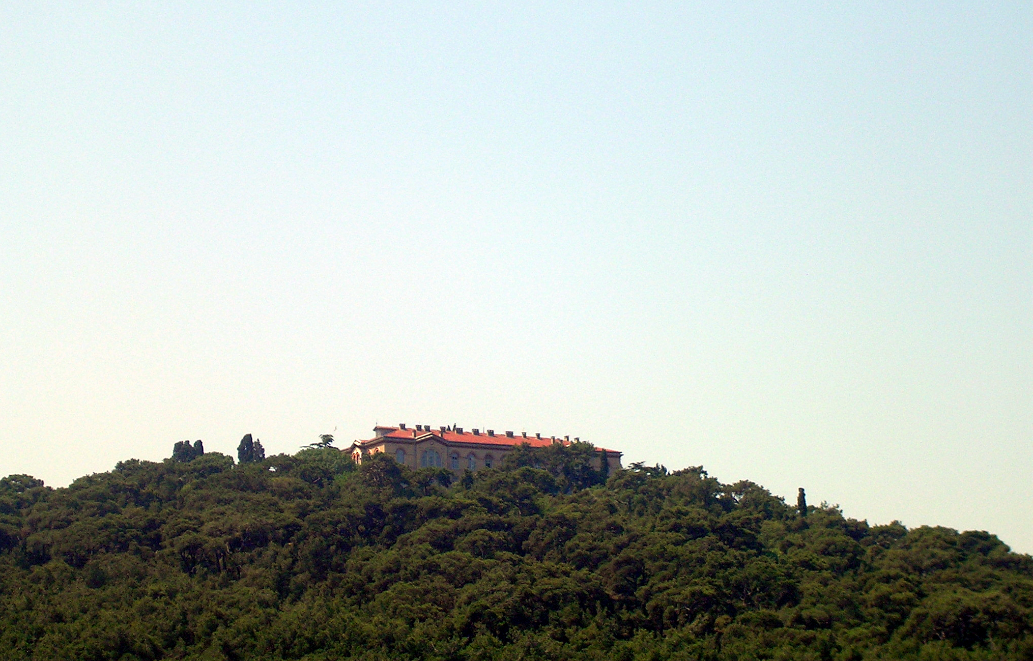 Theological School of Chalki at the top of the Hope Hill at Heybeliada Island, Turkey.